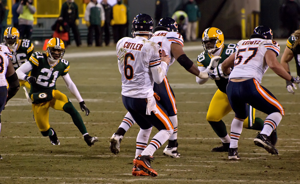 Lambeau Field - January 2, 2011. Photo by Mike Morbeck.